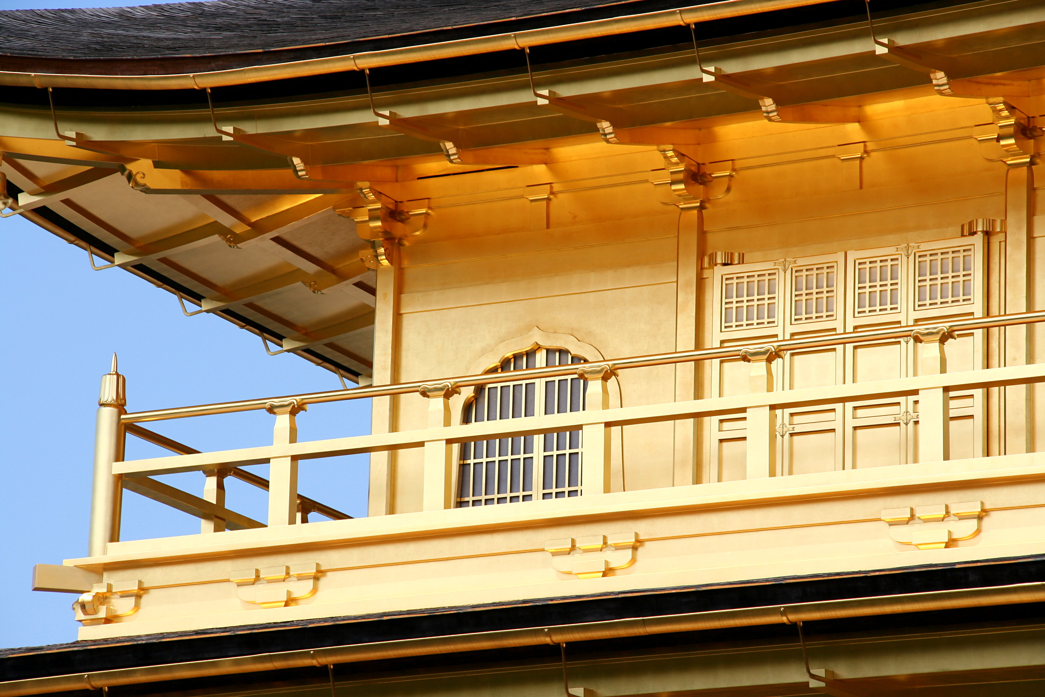 Detail of Kinkaku-ji in Kyôto/Japan